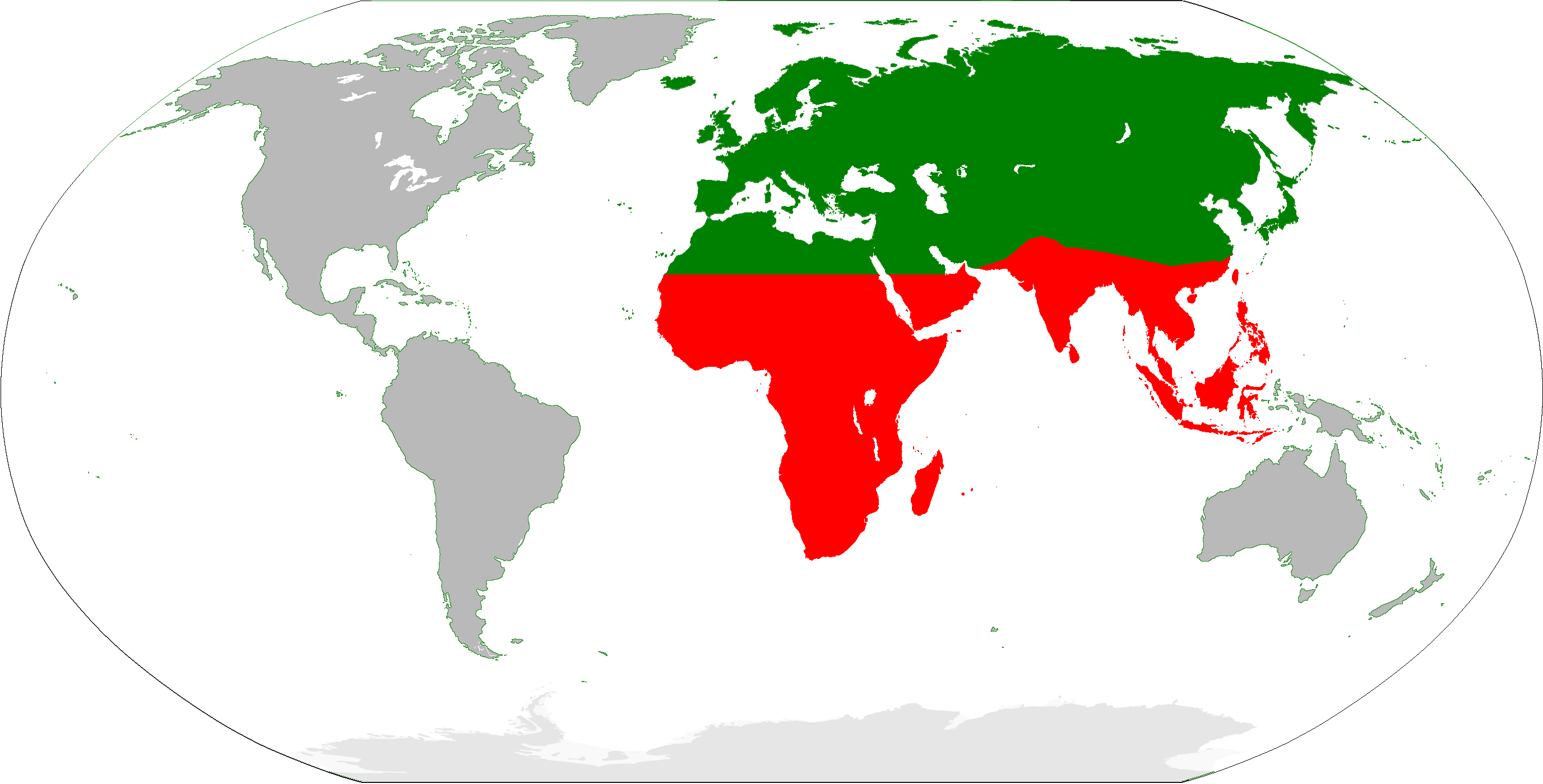 Old World including its two ecozones:Palearctic (green) and Paleotropic (red)